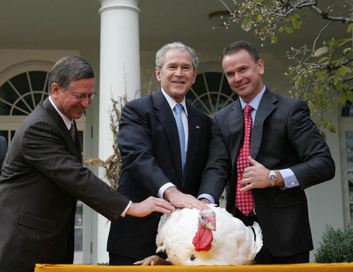 President George W. Bush stands between Paul Hill, left, of the National Turkey Federation, and his son, Nathan Hill during the pardoning of the Thanksgiving turkey Wednesday, Nov. 26, 2008, in the Rose Garden of the White House. This year marked the 61st anniversary of the National Thanksgiving Turkey Presentation and Pardoning. White House photo by Joyce N. Boghosian